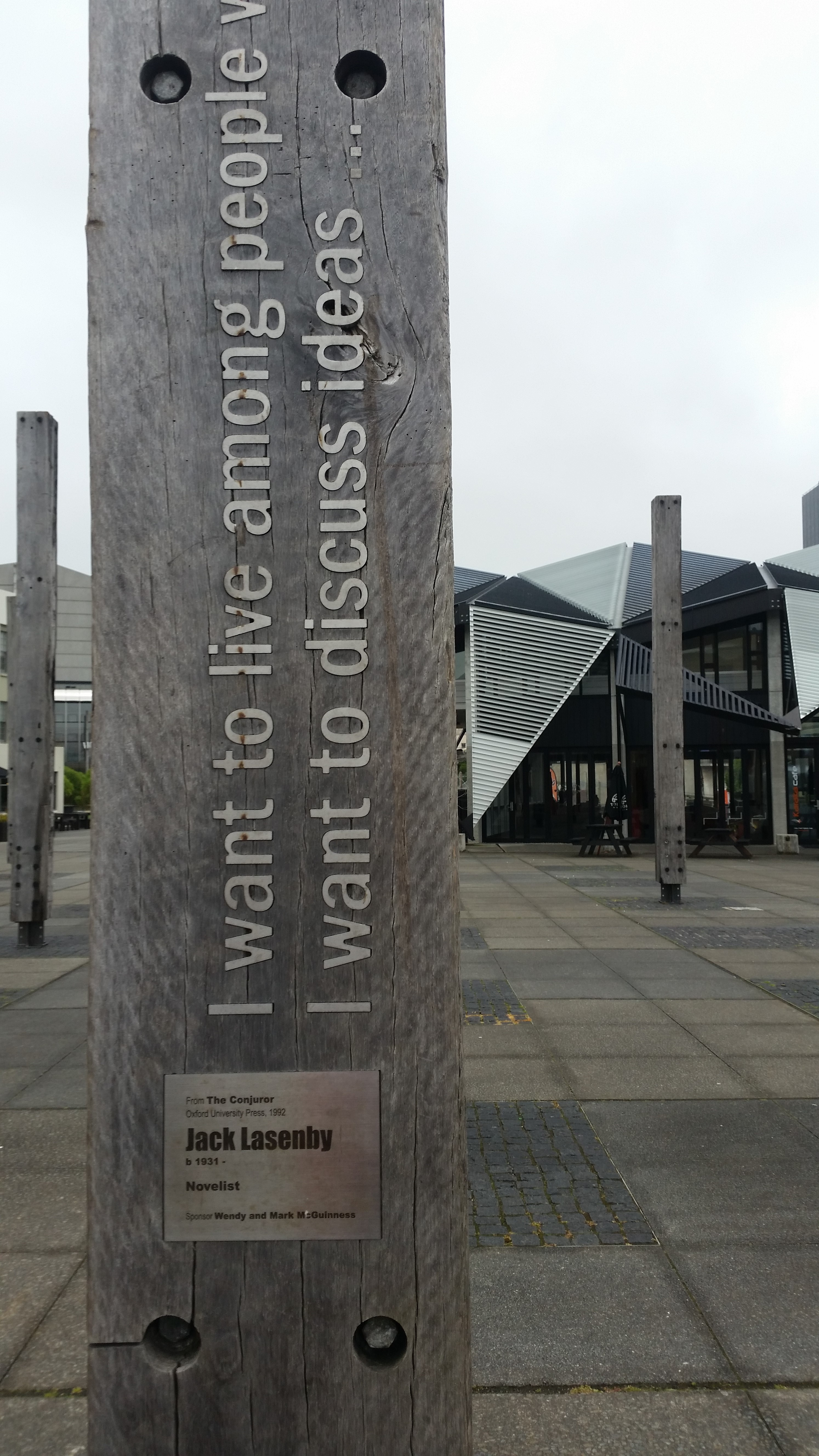 The sculpture for Jack Lasenby on the Wellington Writers Walk, Wellington, New Zealand